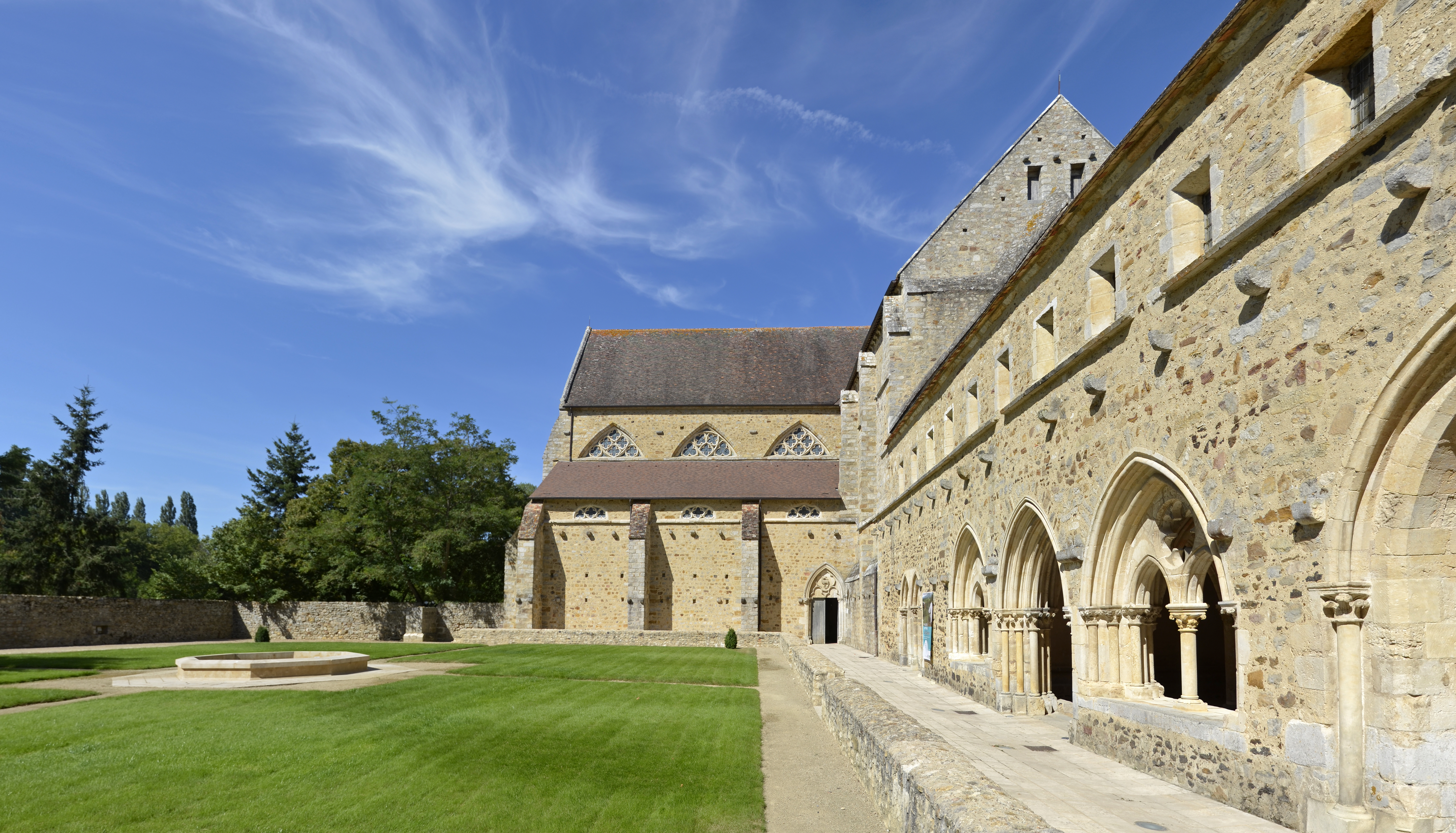 Church and chapter house of Épau abbey - Yvré-l'Évêque, Sarthe, France .